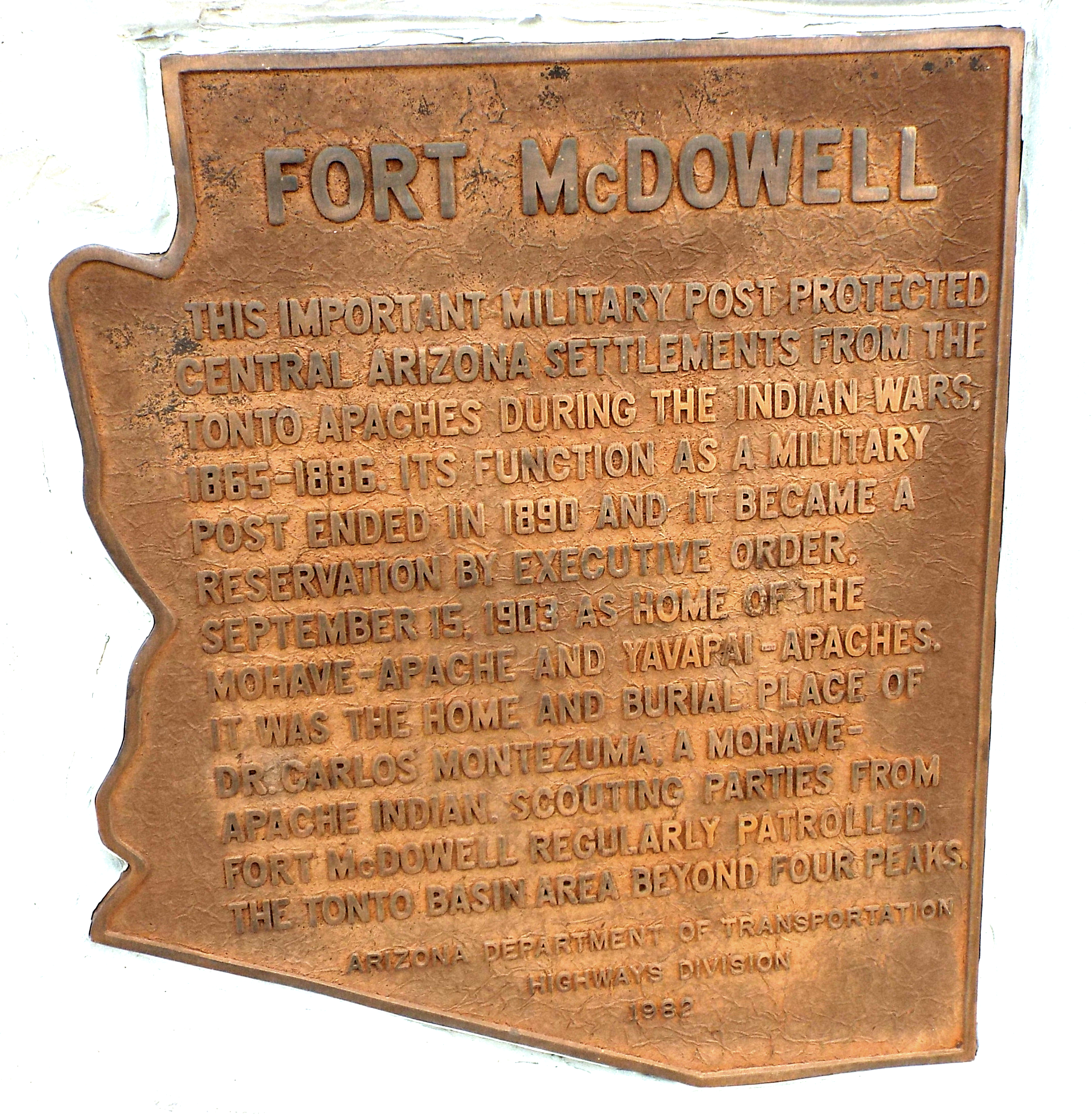 Marker which indicates where the historical Fort McDowell of Arizona was once located.